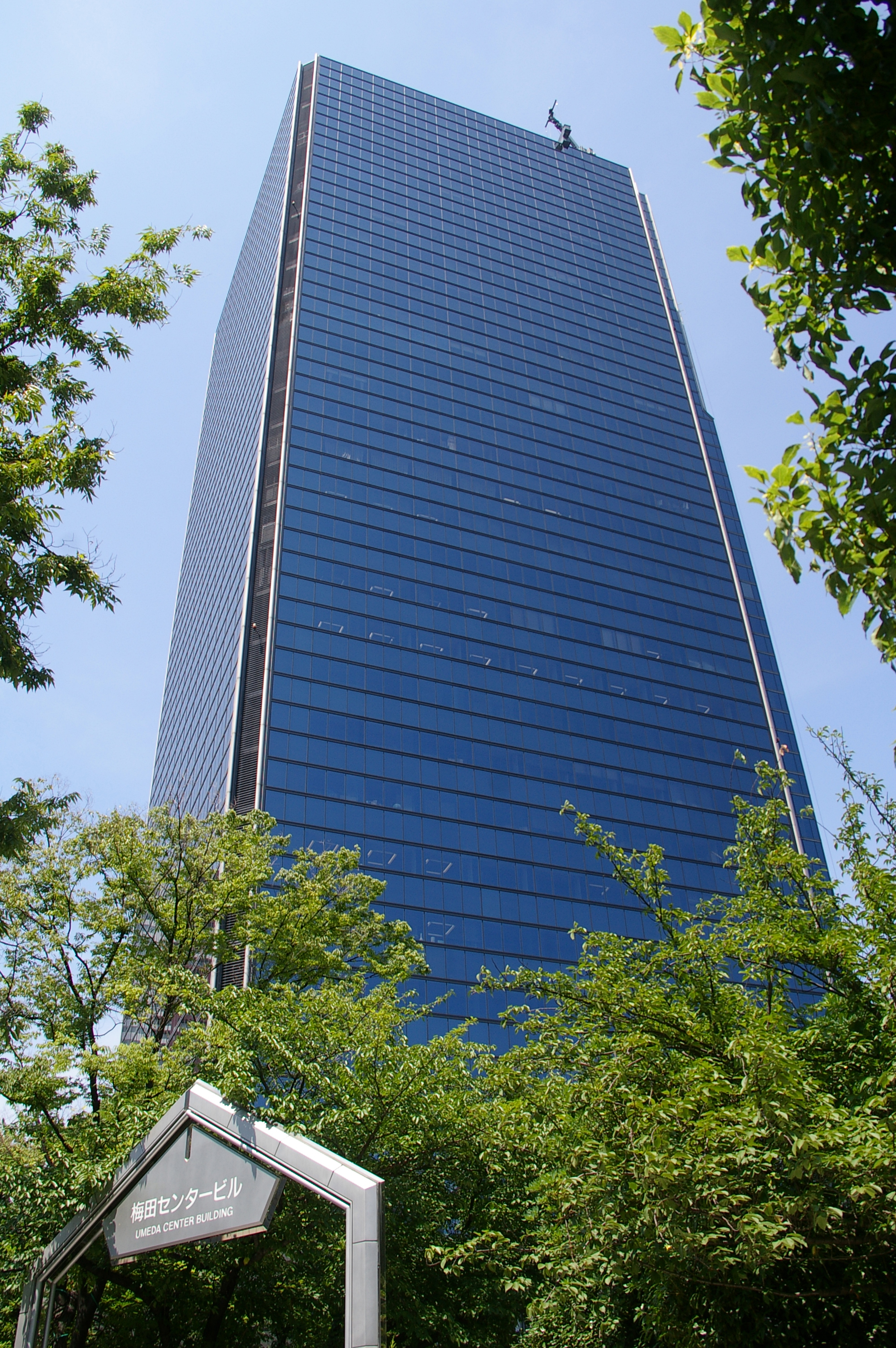 Photograph of Umeda Center Building in Kita-ku, Osaka, Osaka Prefecture, Japan.